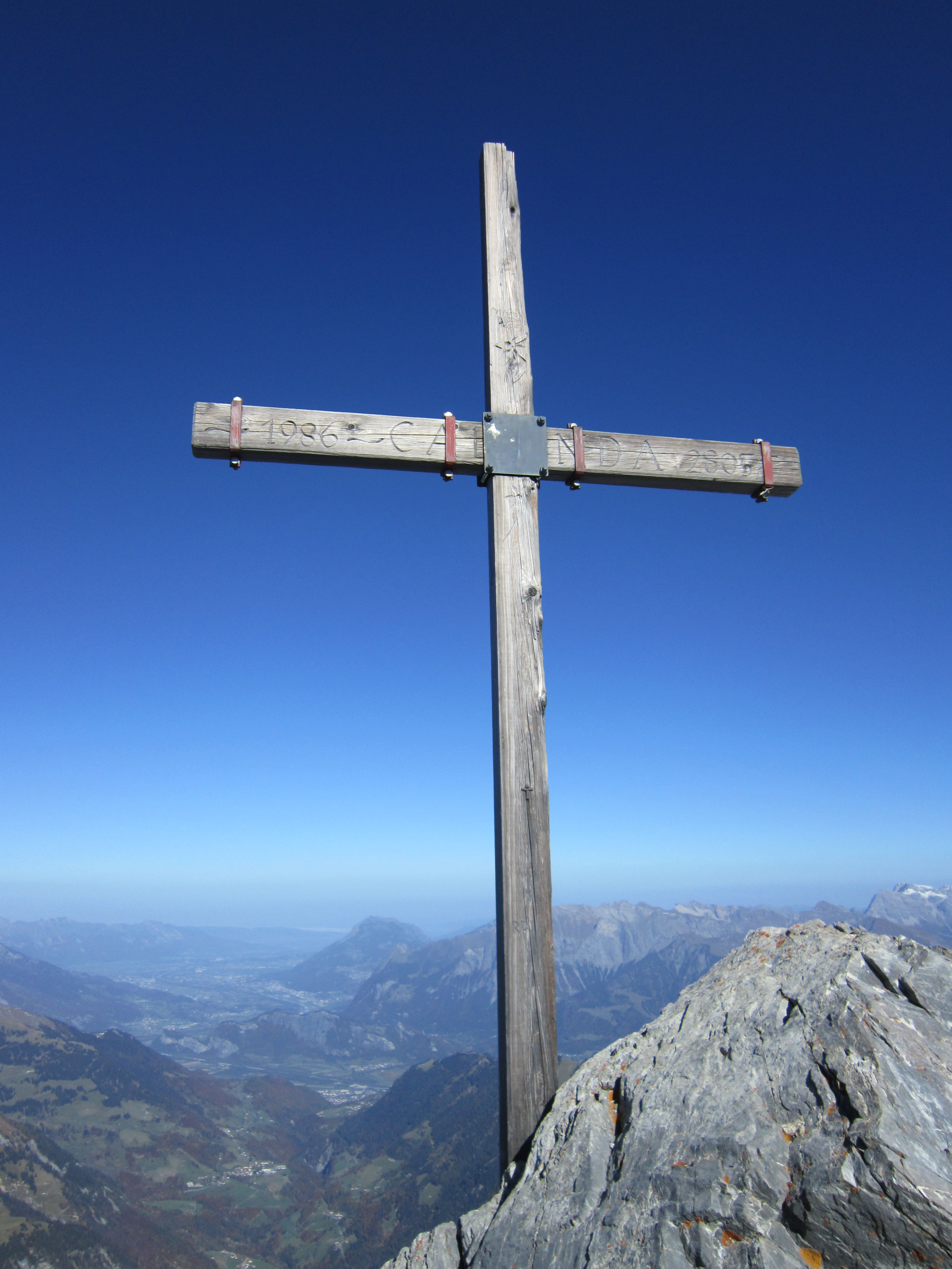 Summit cross on top of Haldensteiner Calanda, Pfäfers, Untervaz, Grison, Canton of St. Gallen, Switzerland